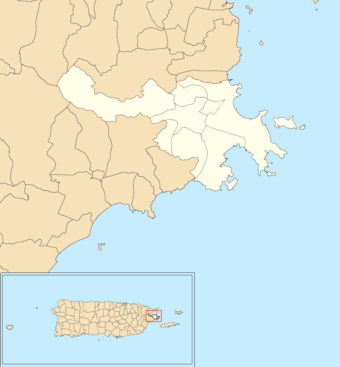 Barrios in the municipality. Map scale is 1:200,000